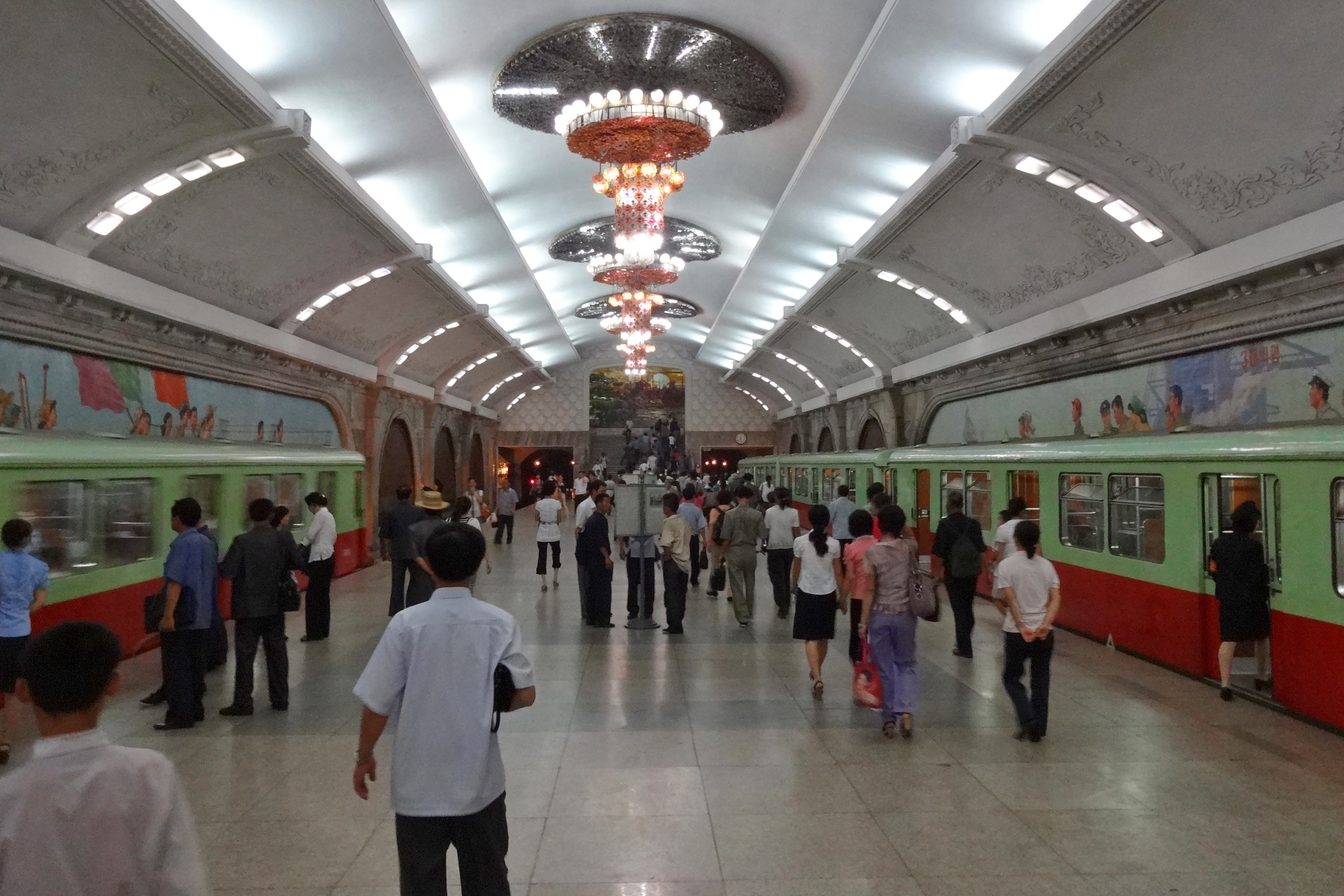 Platform with people and two subway trains in a metro station in Pyongyang, North Korea